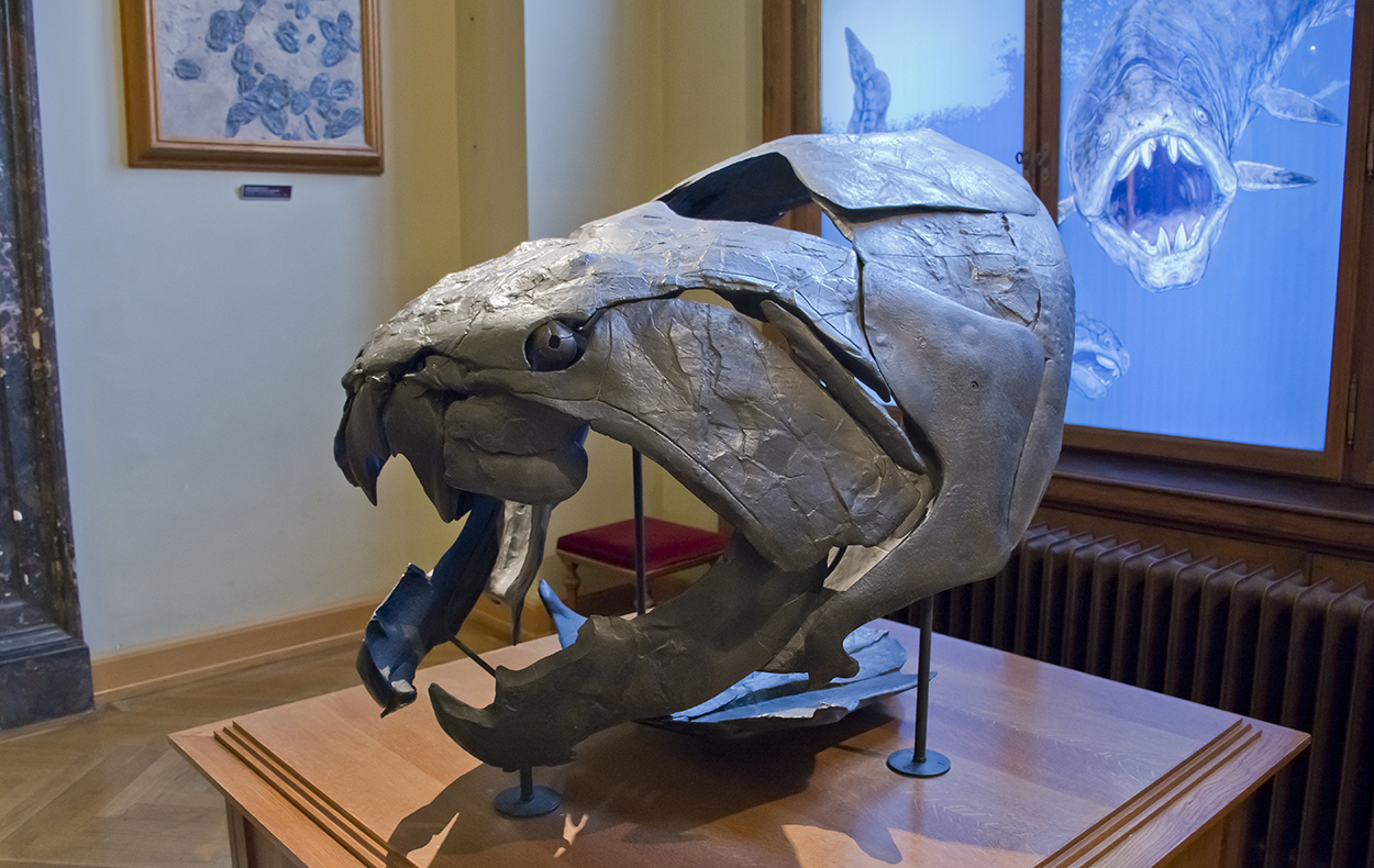 Dunkleosteus דנקליאוסטיוס Vienna Natural History Museum, Austria, 2014 Wien Naturhistorisches Museum, Osterreich, 2014 המוזיאון להיסטוריה של הטבע, וינה, אוסטריה, 2014 This image was created by Zachi Evenor צחי אבנור and is released under Creative Commons CC-BY license. When using this image credit it to Zachi Evenor (in Hebrew for use in Israel: צחי אבנור). Please avoid using these images in an abusive or offensive manner. Please link to the original image on Wikimedia Commons or Flickr if possible. For more free to use images visit Category:Photographs by Zachi Evenor. For non-free images visit Flickr: . Enjoy this image :)